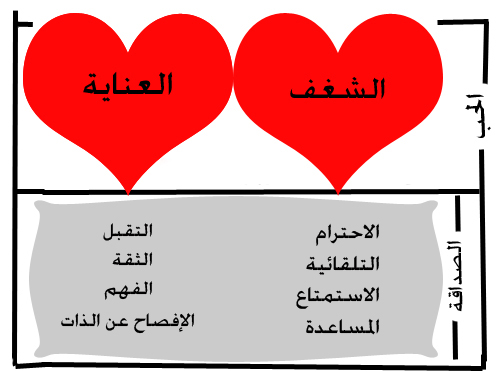 The differences between friendship and love